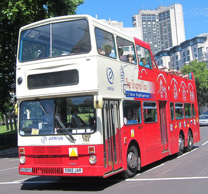 The Original Tour bus EMB765 (reg. E965 JAR), a 1988 MCW Super Metrobus double-decker, pictured heading around the Wellington Arch in central London, operating the company's yellow tour. It's a high capacity tri-axle 12m long bus, delivered new to Hong Kong operator China Motor Bus as their fleet no. ML64 (reg. DV 4883). See Second-hand Hong Kong tri-axle buses imported to the United Kingdom for a full vehicle history.